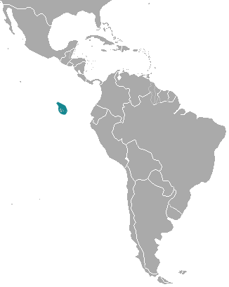 Galápagos Fur Seal (Arctocephalus galapagoensis) range